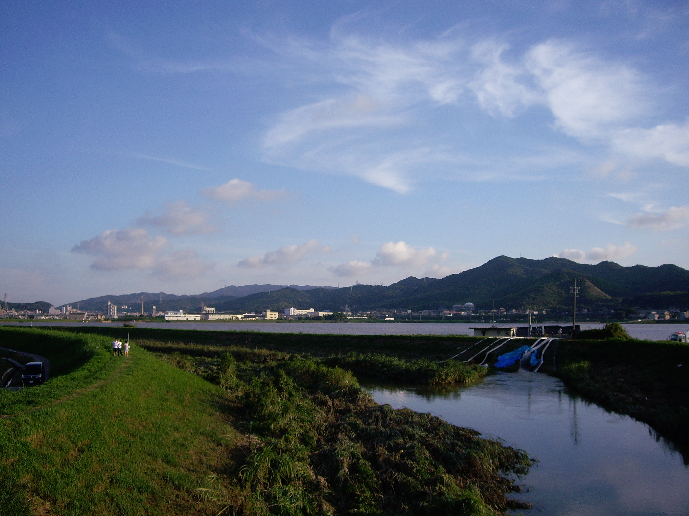 River Kõda (広田川, コウダ ガワ), at Hishiike block (菱 池) in Kõta town (幸田町, こうた ちょう), Nukata district (額田郡, ぬかた ぐん) Aichi Prefecture (愛知県, あいち けん), on August 31, 2008. After a localized torrential downpour. Flooded rice fields are being restored.